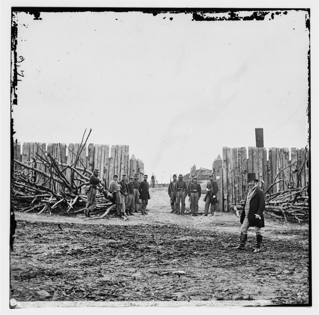 Rear entrance, Fort Corcoran, Arlington, Va. Taken at an unknown time during the American Civil War. Forms part of Civil War glass negative collection (Library of Congress). Library of Congress Link